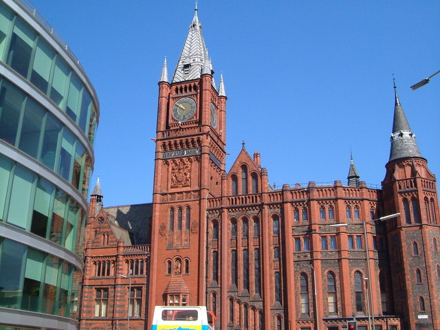 Victoria Building, University of Liverpool. Allegedly the original "red brick university" building, 1889-92 by Alfred Waterhouse. Seen across Brownlow Hill from Mount Pleasant.